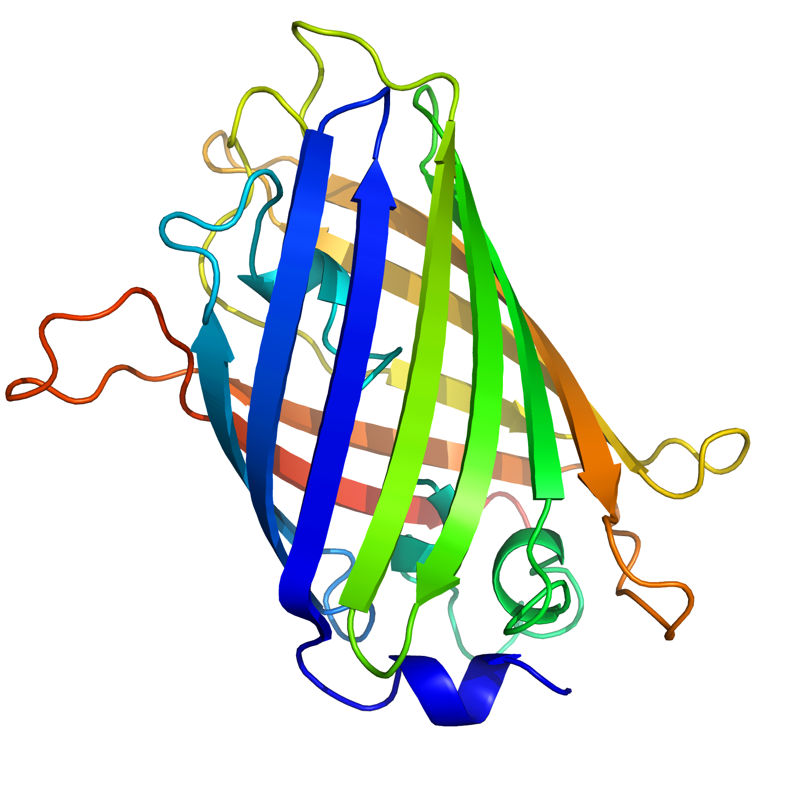 Green Fluorescent Protein (GFP). Produced from PDB: 1EMA, rendered in PyMOL.